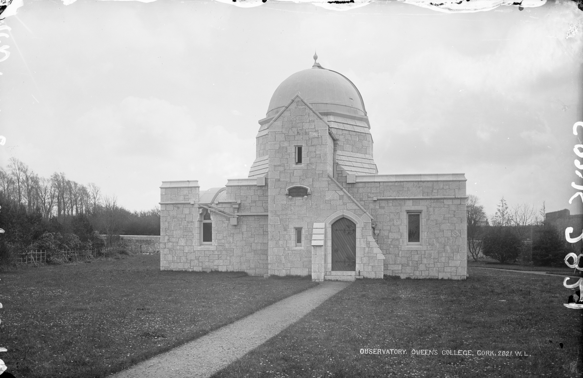 Anyone visiting the college for 2015's "George Boole 200" events may be interested to know that this observatory is accessible to visitors for the first time since opening in the 19th century. It certainly looks shiny and new in this French shot, but could we refine the date/range of when it was taken? The consensus seems to be that this photo was taken soon after the building was opened in 1880. From a history of the observatory it seems that whereas it is not famous for any particular discovery, it still holds an important place in that world: The significance of the Crawford Observatory lies largely in the quality of its instruments, rather than in the findings made by astronomers using the instruments. The Siderostatic Telescope, for example, is the ancestor of that used today in Kitt Peak in Arizona and the work done there is still relevant over a hundred years later. from: Photographer: French, Robert (1841-1917) Contributors: Lawrence, William (1840-1932) Collection: Lawrence Photograph Collection Date: Circa 1880 NLI Ref: L_CAB_02821 You can also view this image, and many thousands of others, on the NLI’s catalogue at